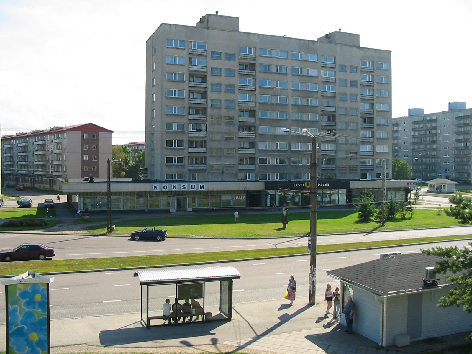 Mustamäe. Busstop on Sõpruse puiestee. The "Konsum" store and "Eesti Ühispank" bank across the street